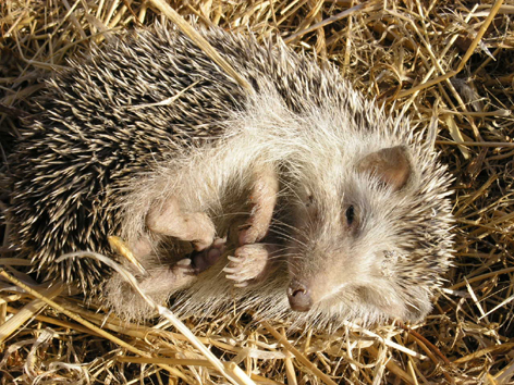 An Algerian Hedgehog in the Balearic Islands